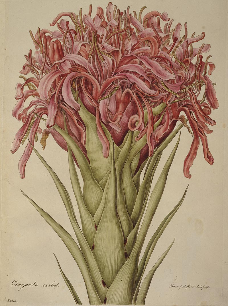 This is an image of Plate 13 from Ferdinand Bauer's Illustrationes Florae Novae Hollandiae. The plant featured is Doryanthes excelsa.